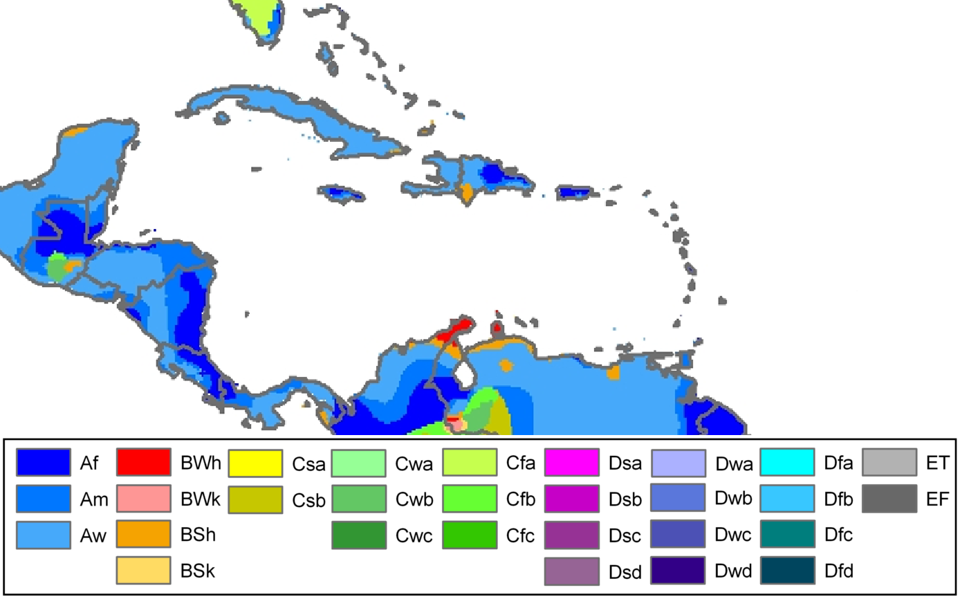 Climate map of Central-America of the Köppen-Geiger climate classification.